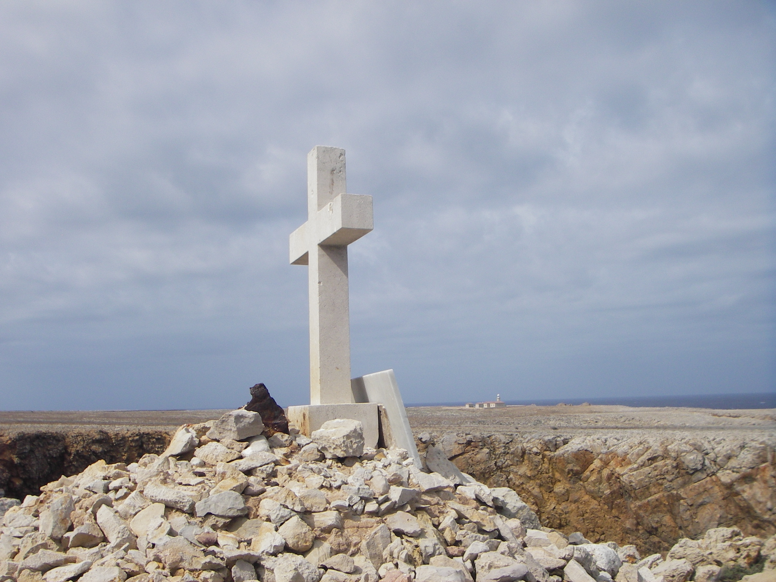 Memorial Cross at Punta Nati